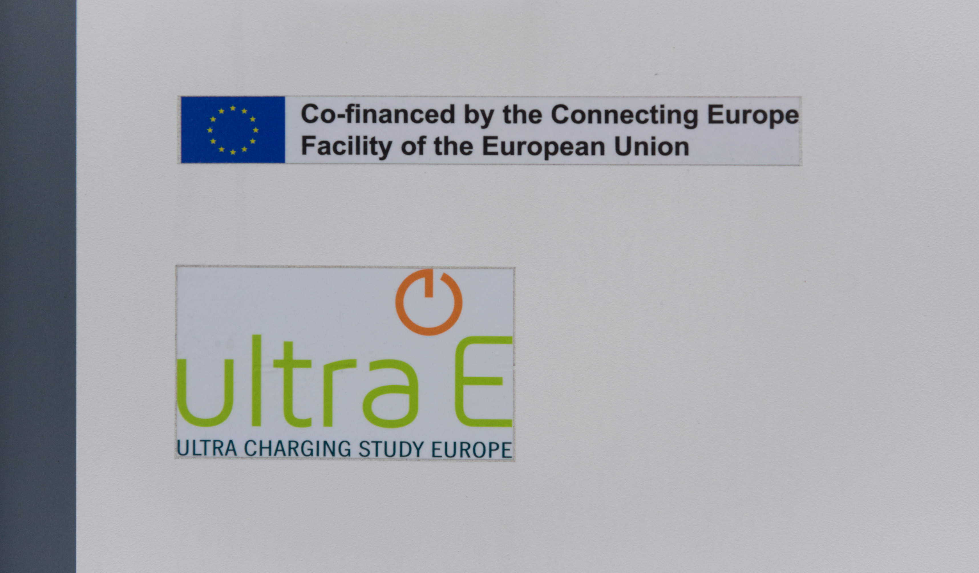 A lable of ultra-E on a charging point of the high performance charging site near Verteilerkreis Favoriten at Ludwig-von-Höhnel-Gasse 2, Vienna, Austria